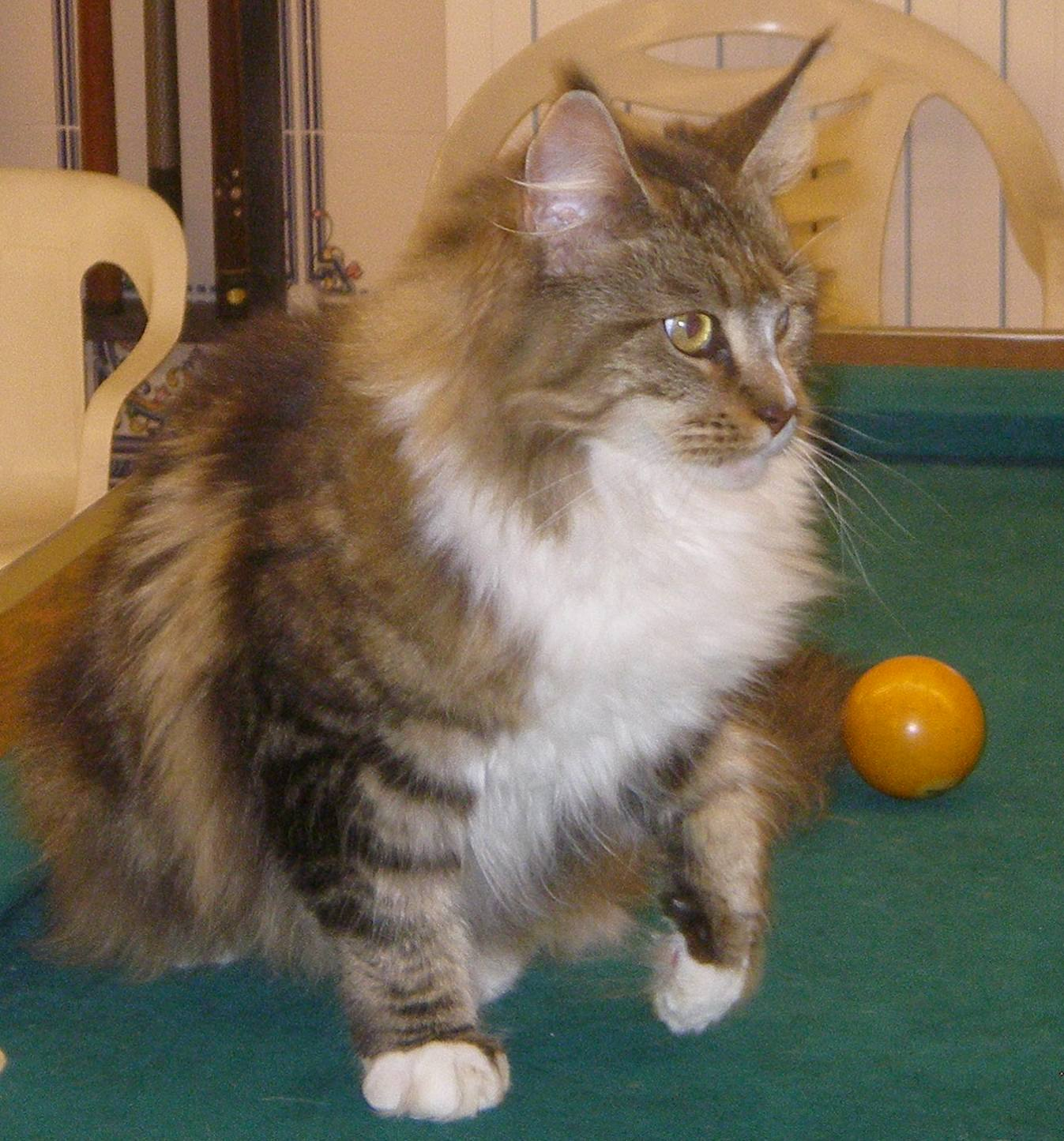 Maine coon Carla De Campos, from Asturias, Spain